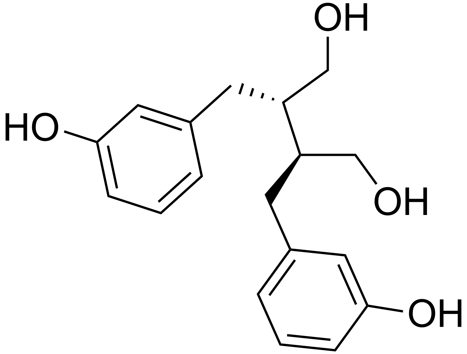 Chemical structure of enterodiol